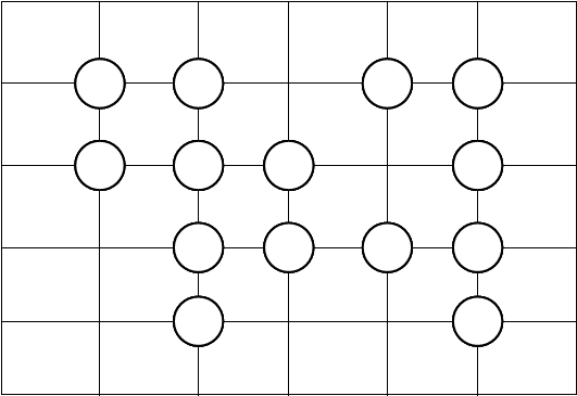 Unsolved Goishi Hiroi grid